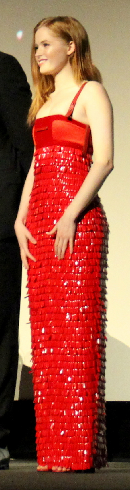 Tom Ford, Amy Adams, Aaron Taylor-Johnson, Armie Hammer, Ellie Bamber